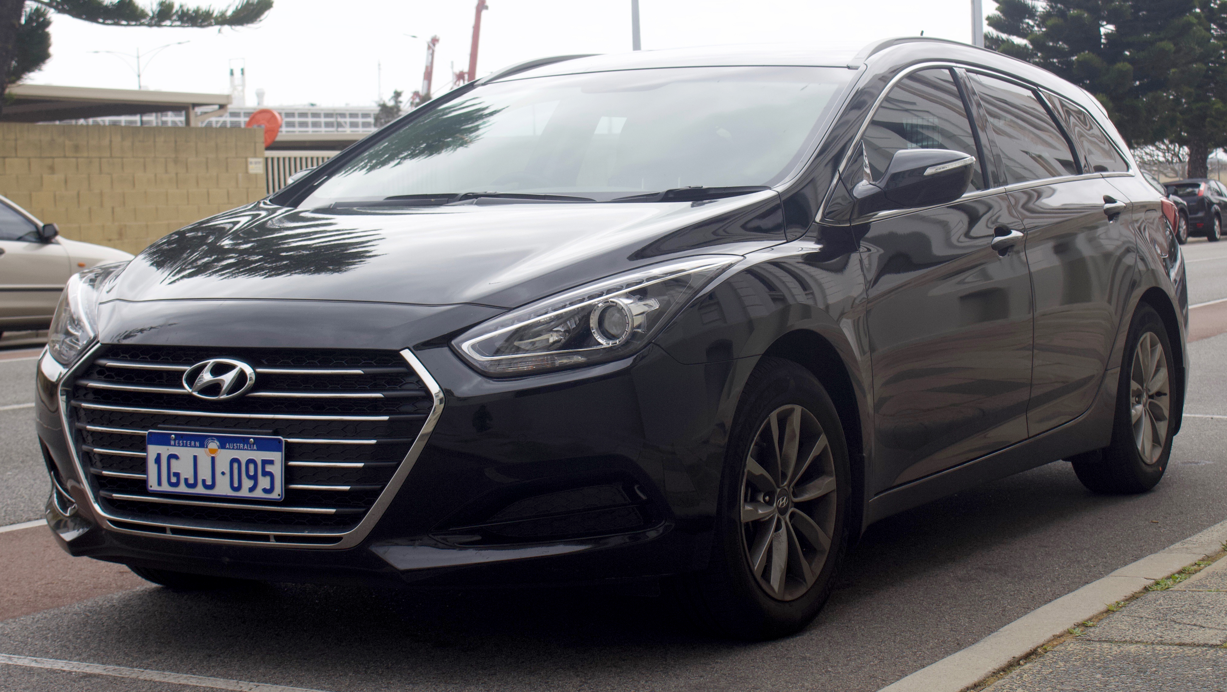 2017 Hyundai i40 (VF4 Series II) Active 2.0 station wagon. Photographed in Fremantle, Western Australia, Australia.